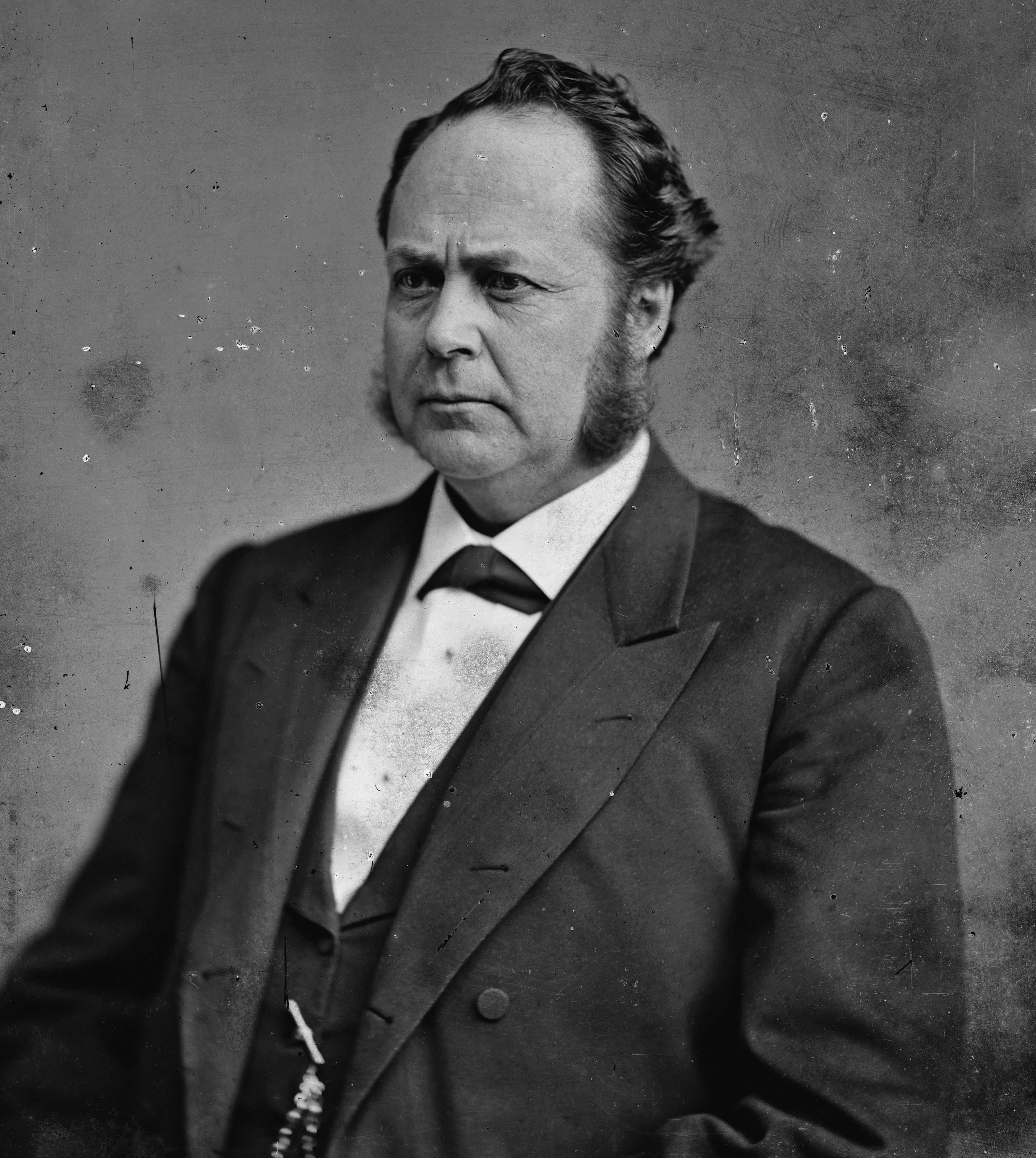 William Windom, formal photo portrait. Secretary of the Treasury of the United States.